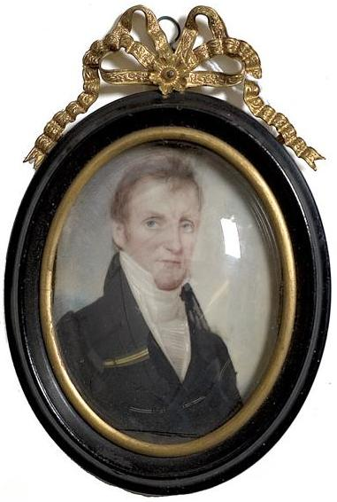 Watercolor miniature of Daniel Greene Garnsey, Congressman from New York.